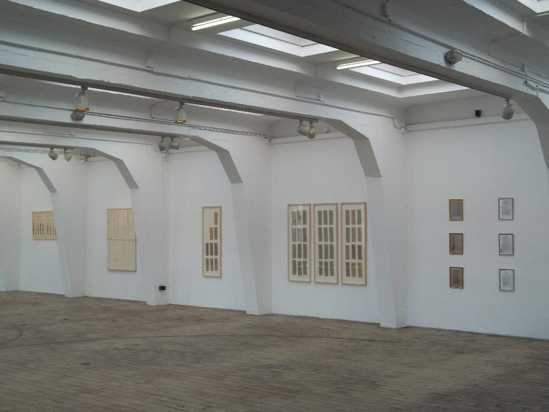 Ausstellung der Fingerboards von Michael Bach Bachtischa in Trier 2012